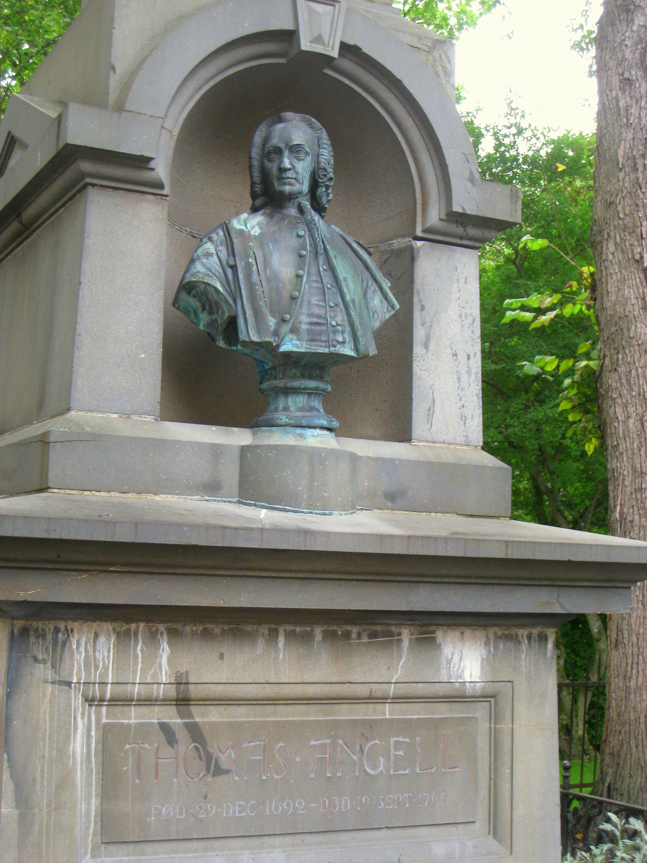 Thomas Angell monument, Trondheim, Norway.